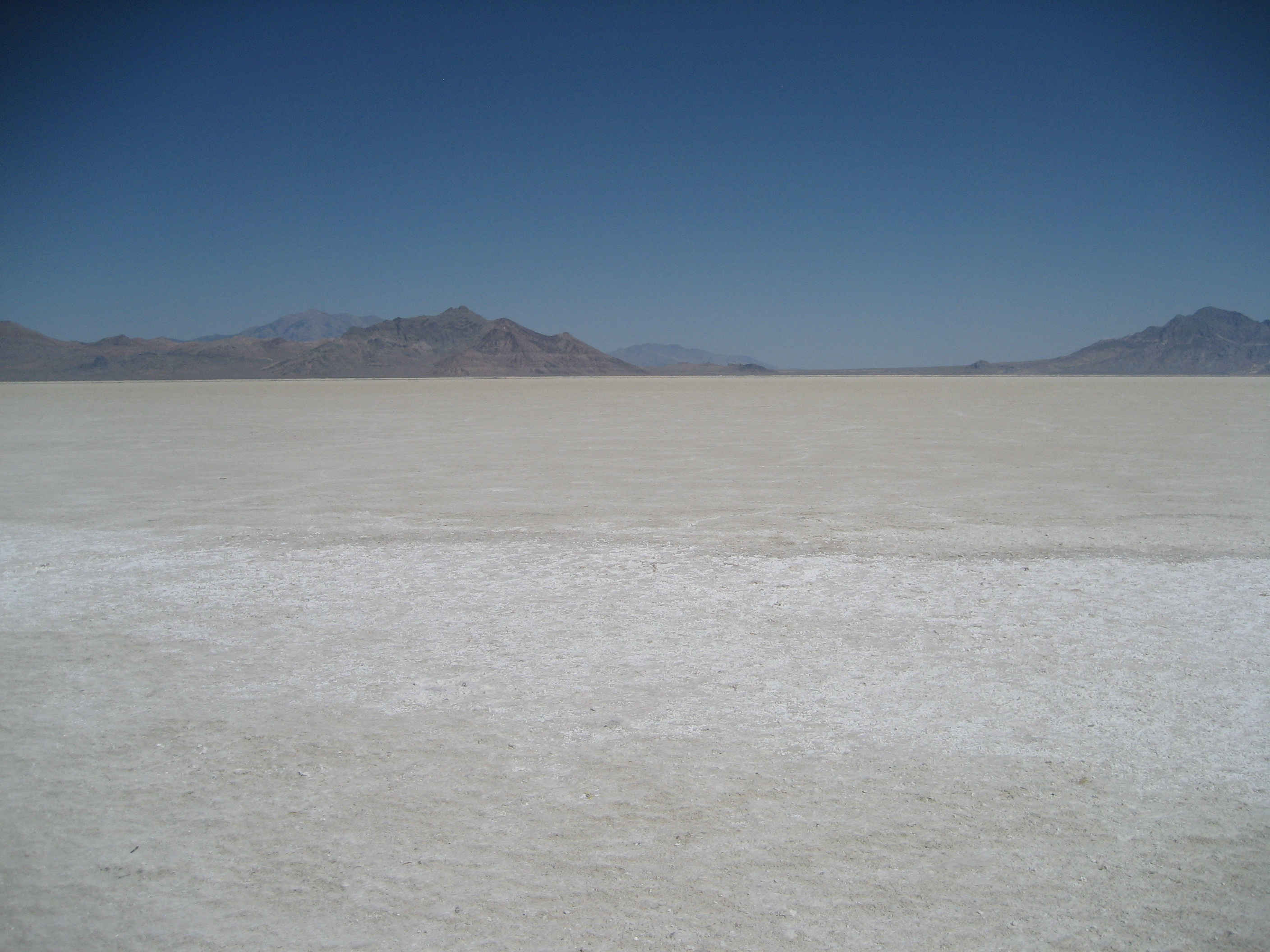 Near the Interstate at midday.